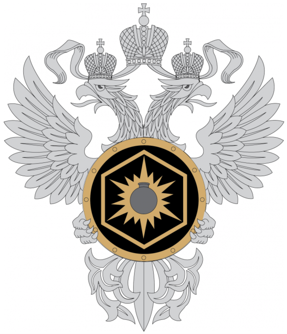 Emblem of Russian Munition Agency